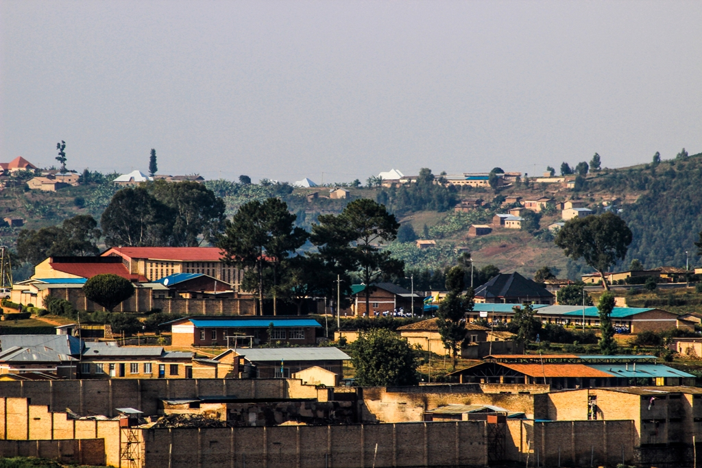 Reality of Light